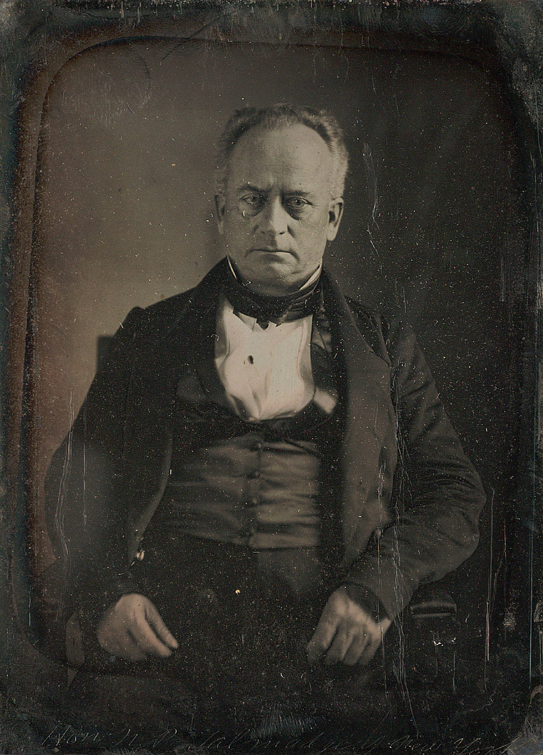 Daguerreotype portrait of New York politician Nathaniel P. Tallmadge, taken by photographer Mathew Brady at the United States Capitol at Washington, D.C., March 1849. Courtesy of the Beinecke Rare Book & Manuscript Library, Yale University.[1]